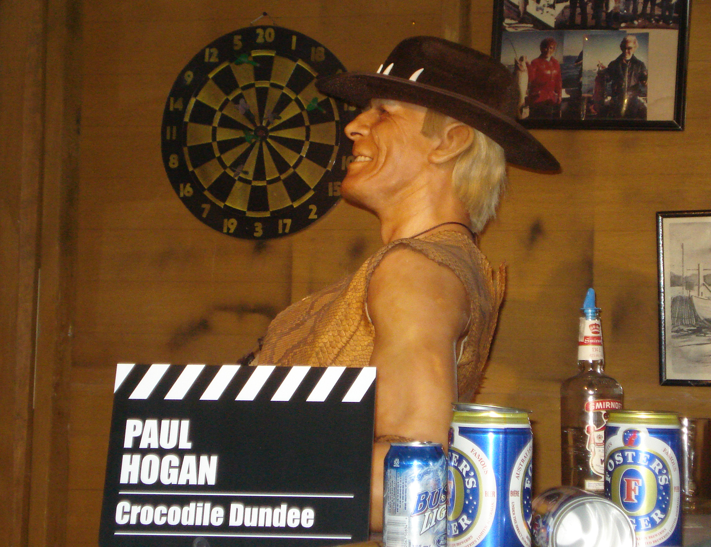 Wax figure of Paul Hogan